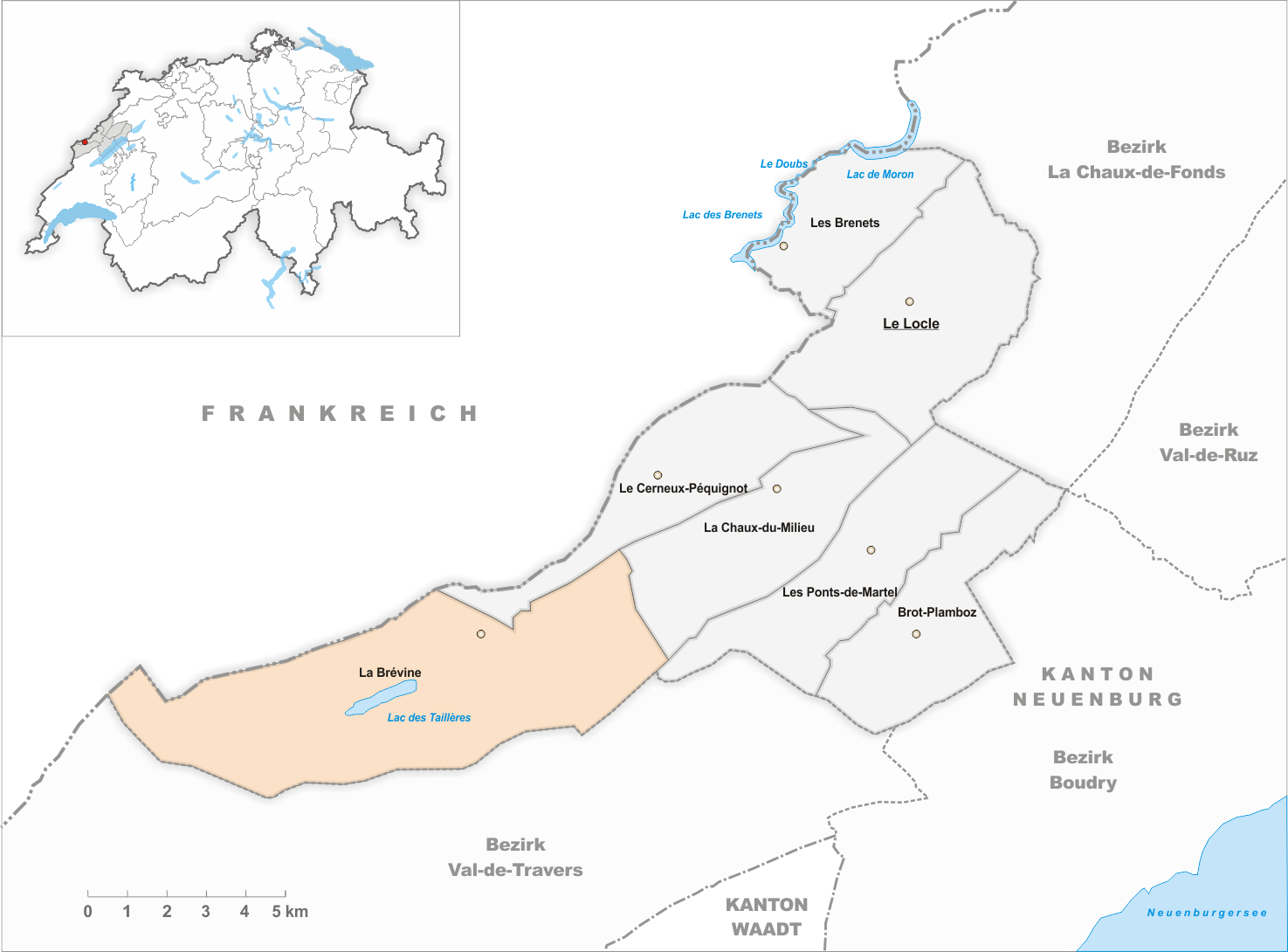 Municipality La Brévine